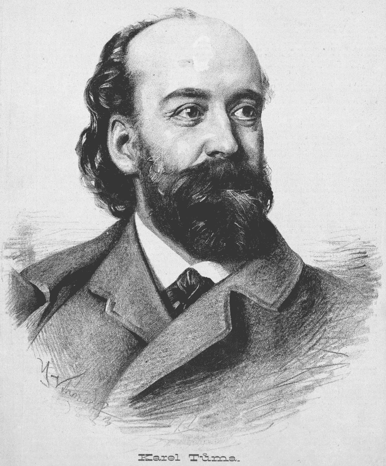 Portrait of Karel Tůma, Czech writer.